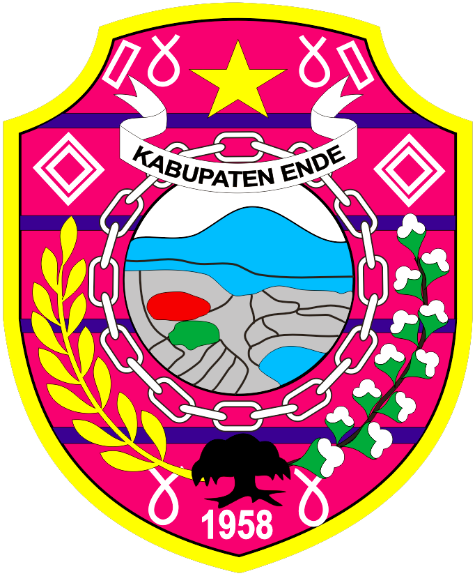 Seal of Ende Regency, Indonesia